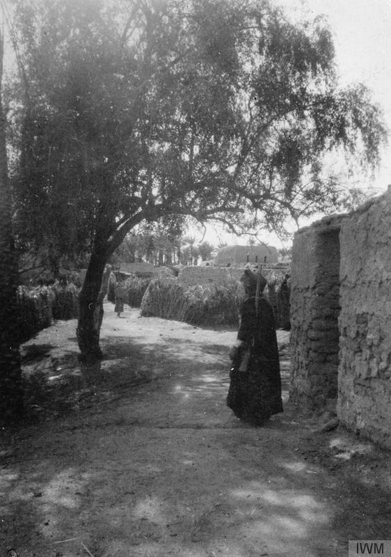 T E Lawrence and the Arab Revolt 1916 - 1918 A street in Nakhl Mubarak, near Yenbo; Abd el Kerim in the foreground.